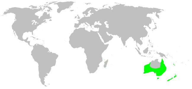 Stiphidiidae habitat distribution, drawn after Platnick: World Spider Catalog 7.0. This is not at all a precise rendering of the distribution! If you have better information, please replace this map, or send me the info, and i will redraw it.